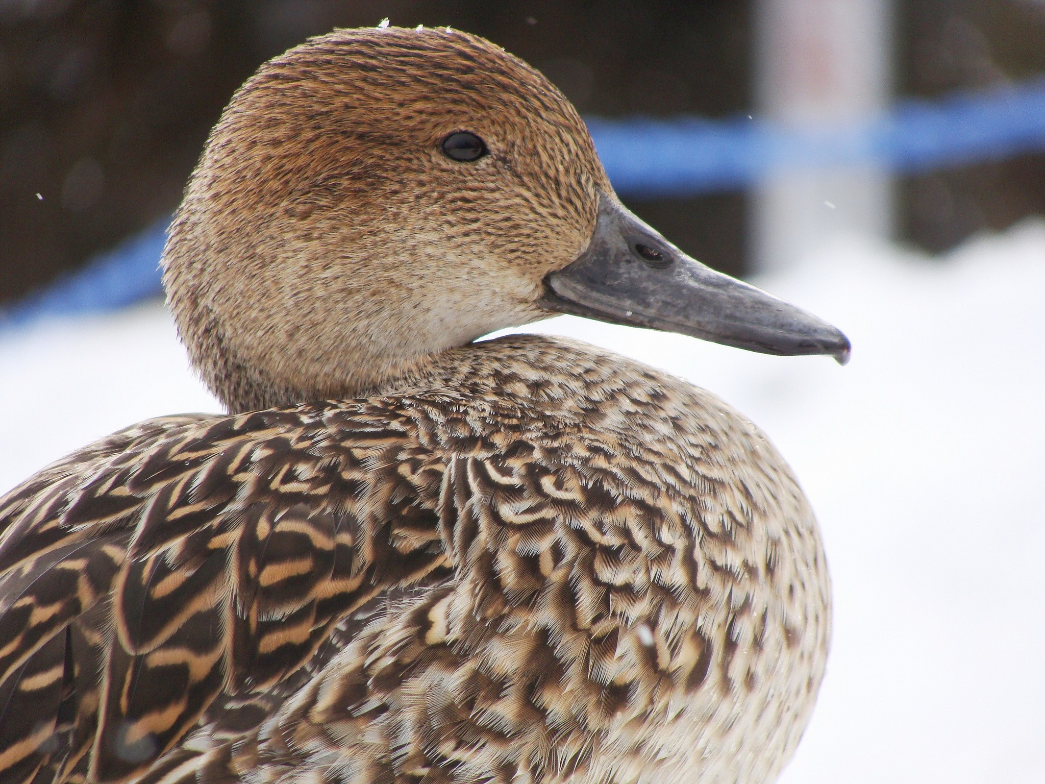 Northern Pintail_Female